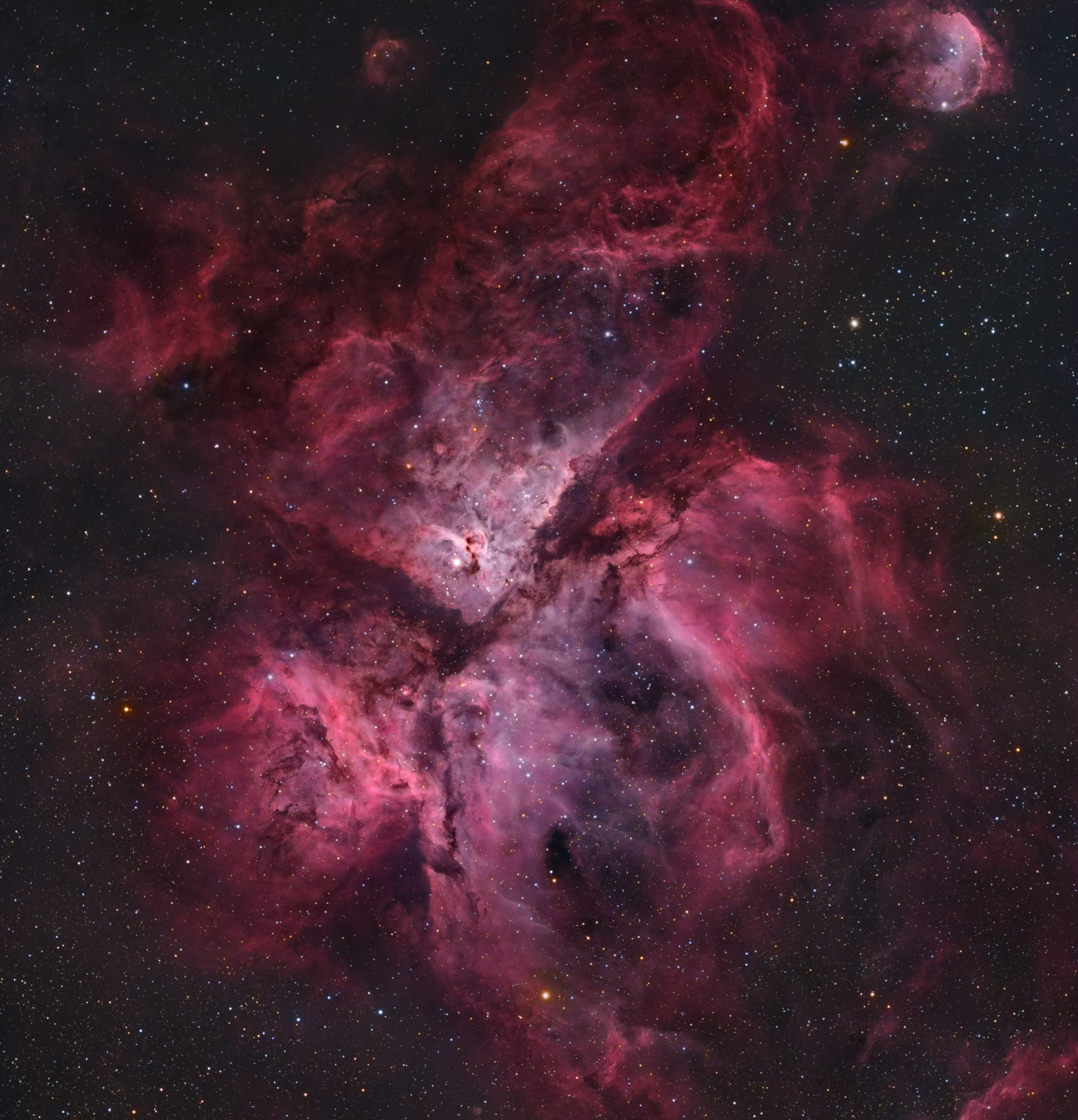 Long exposure photograph of the Carina Nebula along with NGC 3324, taken from the Kalahari Desert in Namibia. North is up. Total exposure time was four hours; 24 frames at 10 minutes each with six frames each for luminosity, red, green and blue. Telescope was an Officina Stellare Riccardi-Honders Veloce RH 200 OTA, camera was an SBIG STL-11000M on an AP GTO1200 mount, guided with PHD.